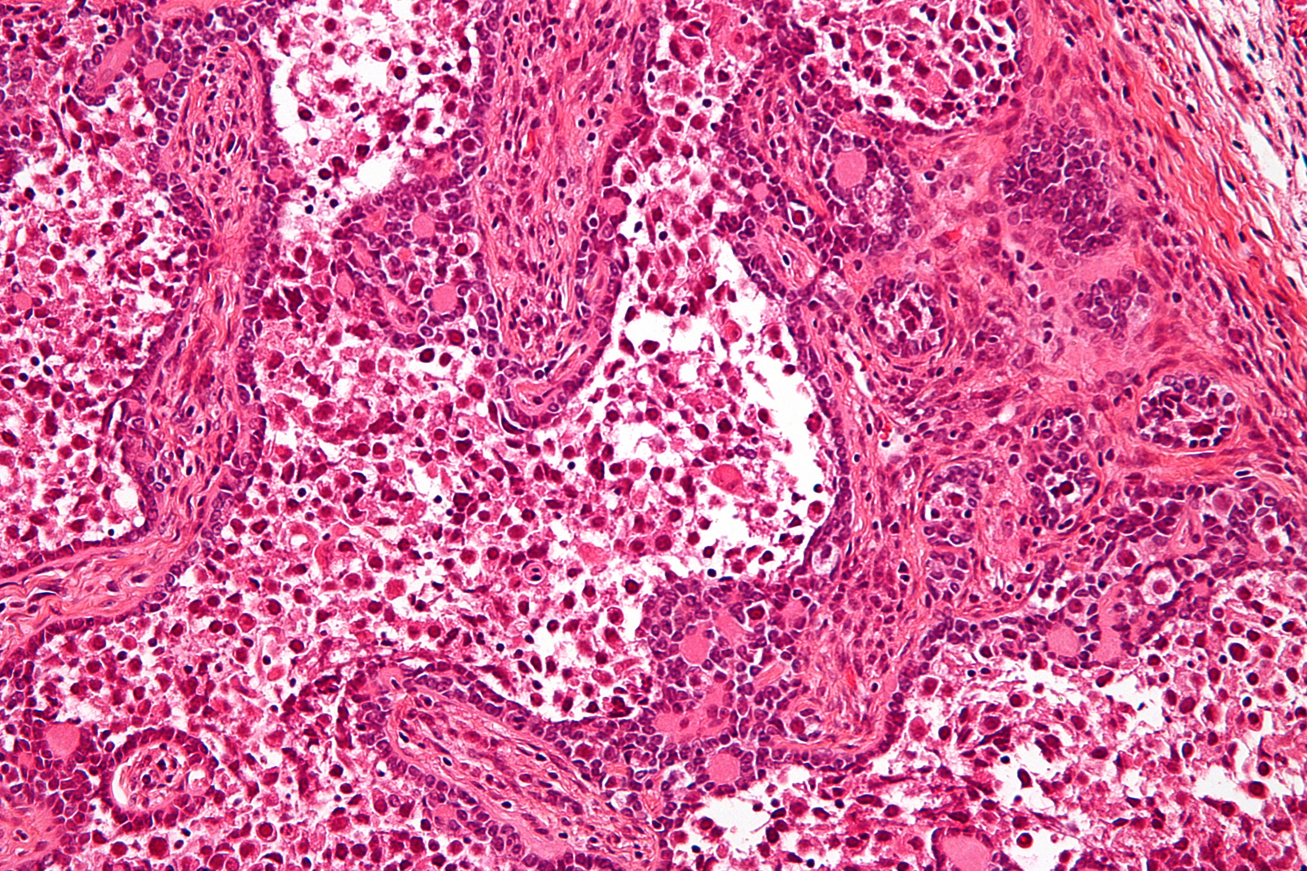 High magnification micrograph of a gonadoblastoma, a rare tumour of the gonads that is composed of a sex cord-stromal element (Sertoli cells or granulosa cells) and primitive germ cells. H&E stain. Related images Very low mag. Low mag. Intermed mag. High mag. High mag. Very high mag.